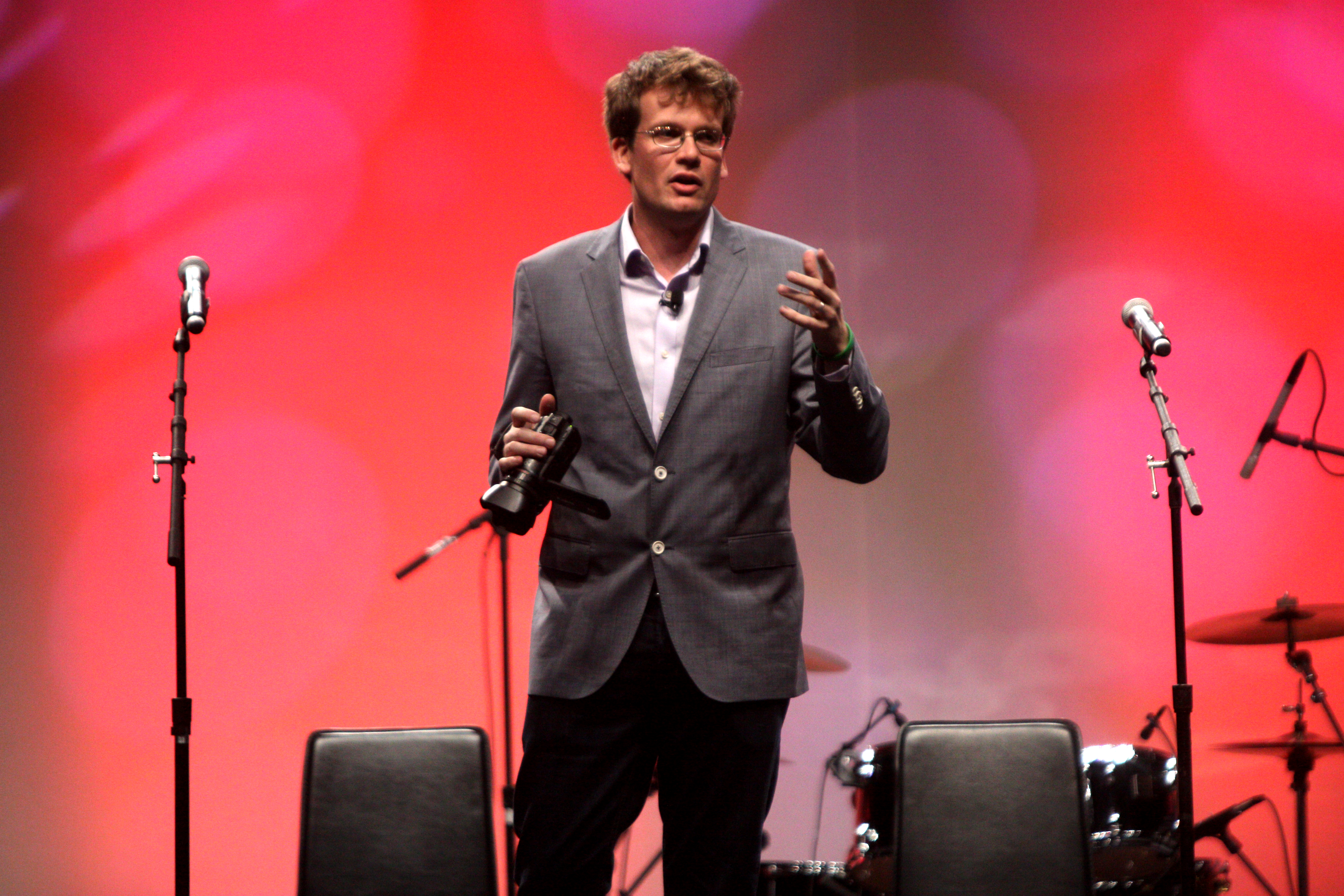 John Green speaking at VidCon 2012 at the Anaheim Convention Center in Anaheim, California.